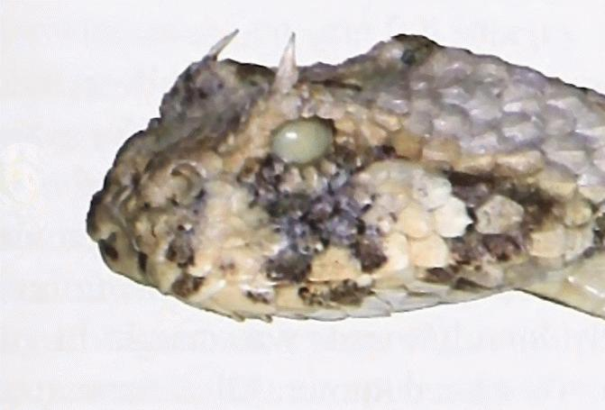 Bonn zoological bulletin - Bitis caudalis Cut-out from original (Bonn zoological bulletin (2010) (20207763459).jpg) shown below